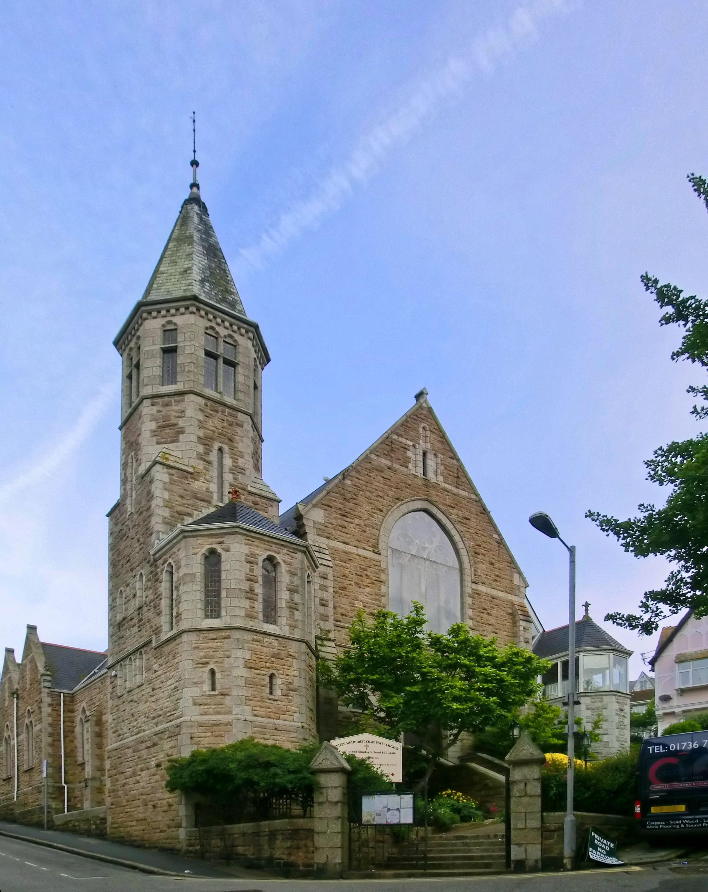 St Ives Fore Street